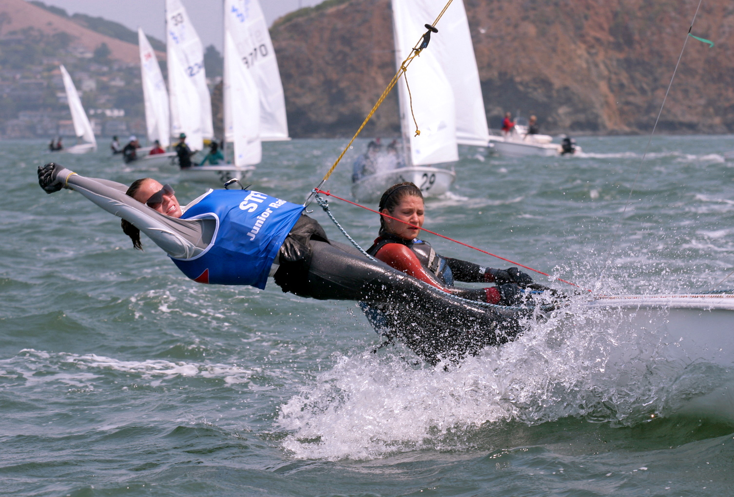 Photo of participants in US Junior Women's Double-handed Sailing Championship on San Francisco Bay in October of 2008. Sponsored by Sausalito Yacht Club.